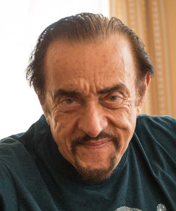 Philip G. Zimbardo at 20th edition of Ji.hlava IDFF 2016